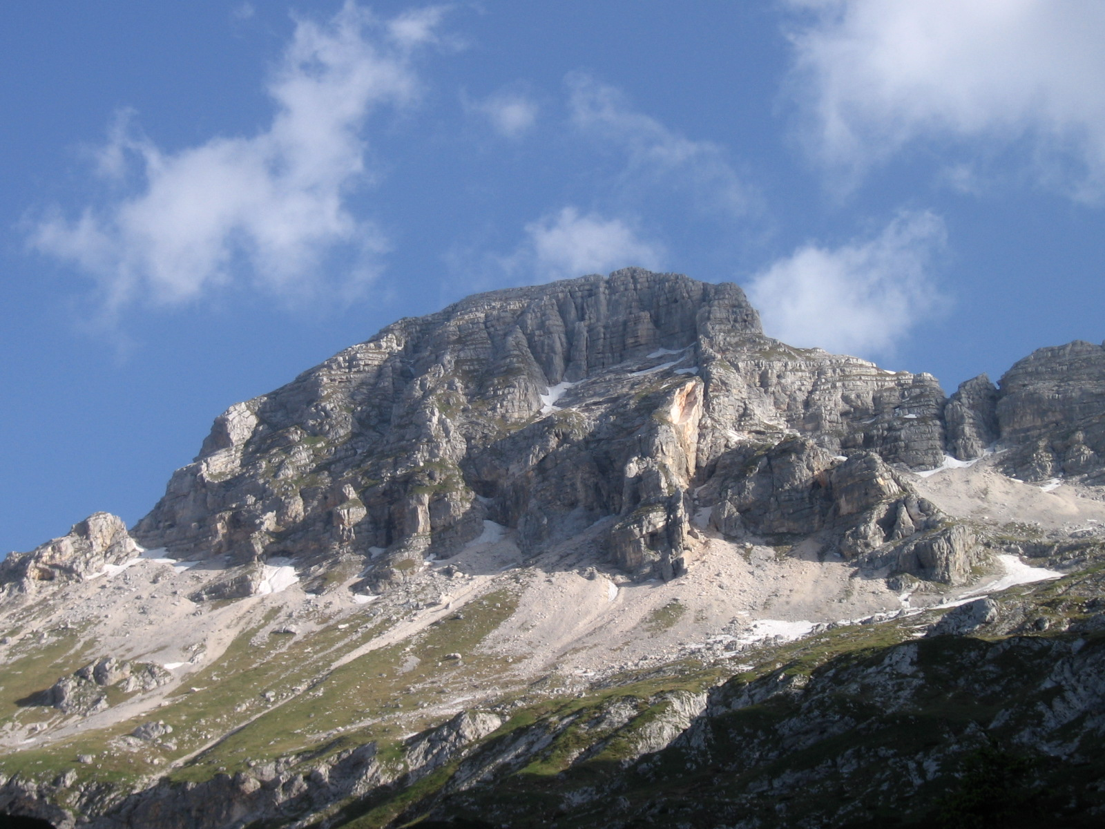 Mount Lopa (2,406 m) above Krnica valley, Kanin mountain chain, on the border between Italy and Slovenia.